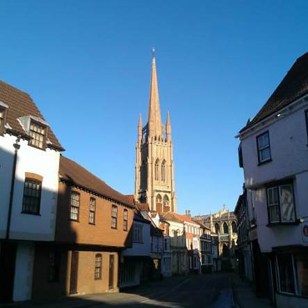 St James' Church Louth, seen from Upgate